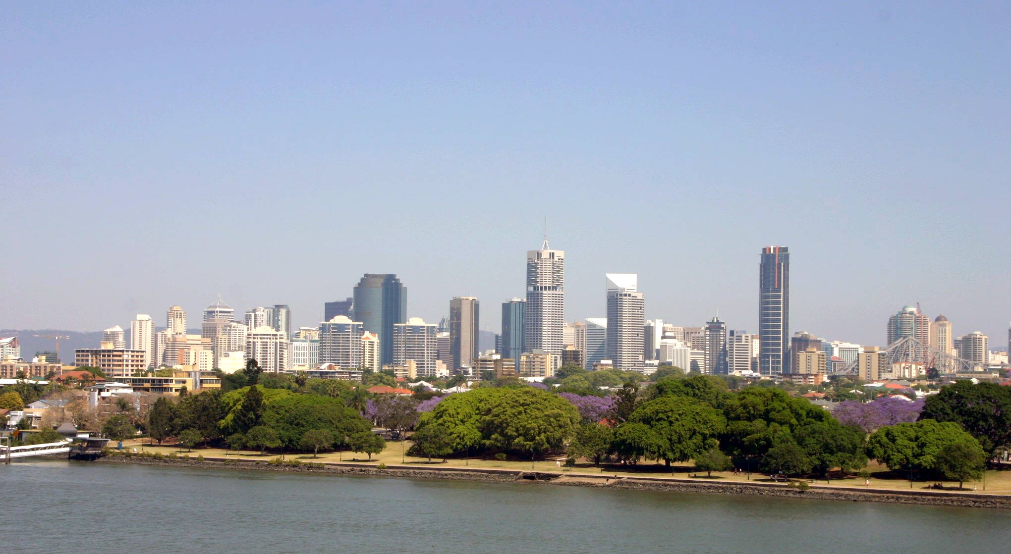 Description: Brisbane skyline from Norman Park, looking over New Farm Park Created: 15 October 2006 Photographer: Troy Thomas